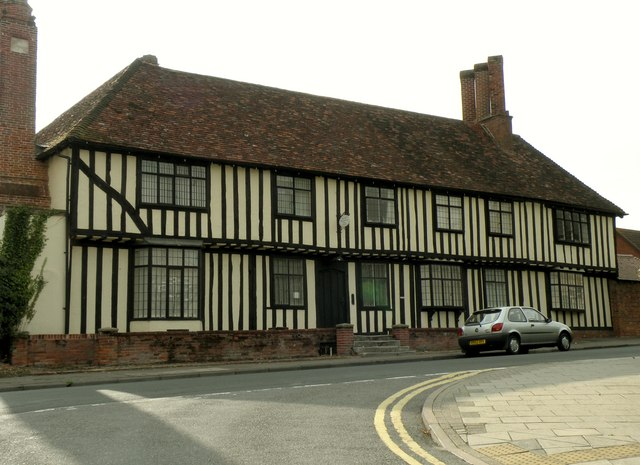 Anne of Cleves House in Hamlet Road, Haverhill In the 17th century a fire destroyed many of Haverhill's old buildings, but this is one of the few that survived. It was built in 1540 by Henry VIII as a marriage settlement for his wife, Anne of Cleves. It was restored in 1986 and it is now used as a private nursing home.